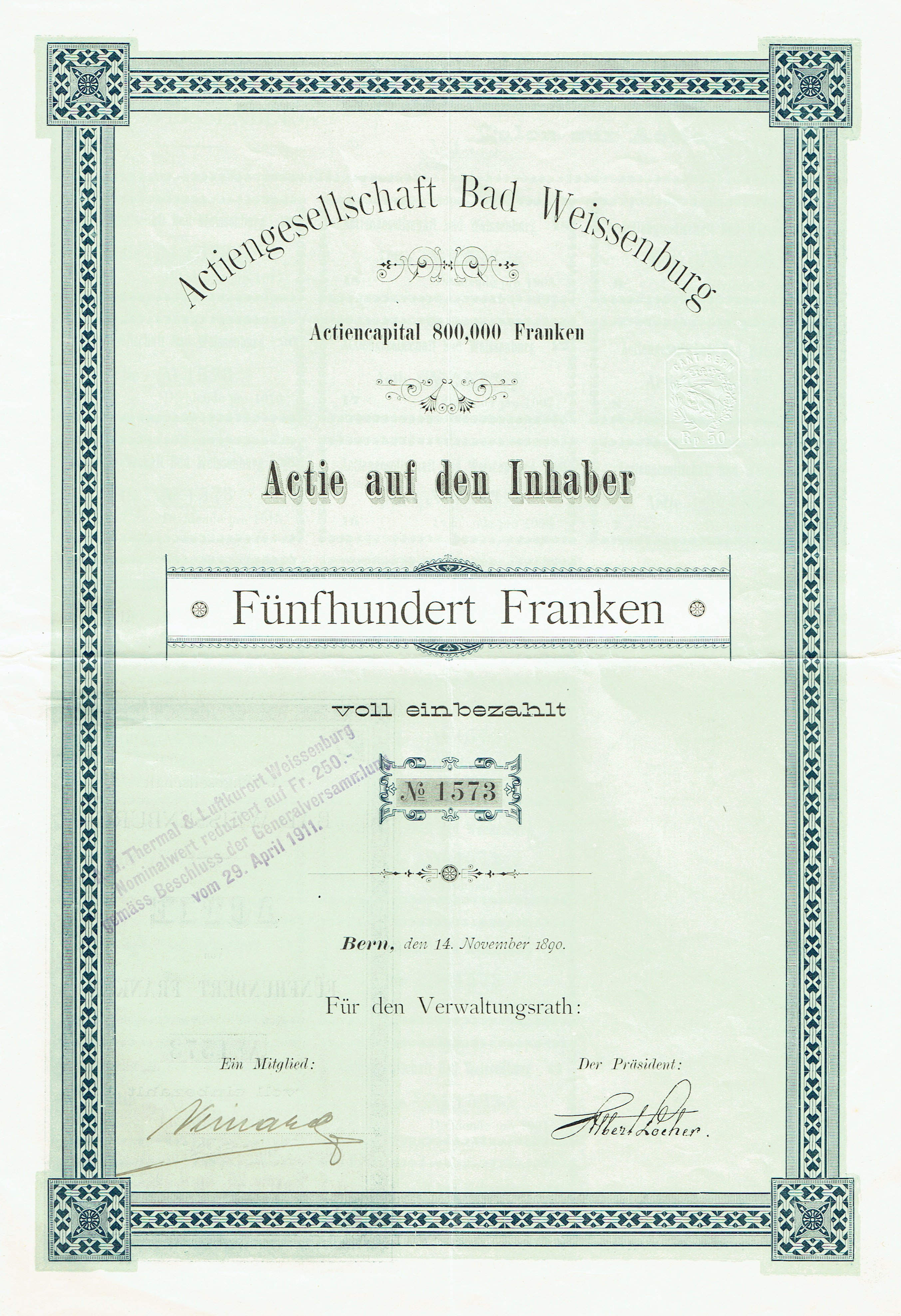 Share of the AG Bad Weissenburg, issued 14. September 1890